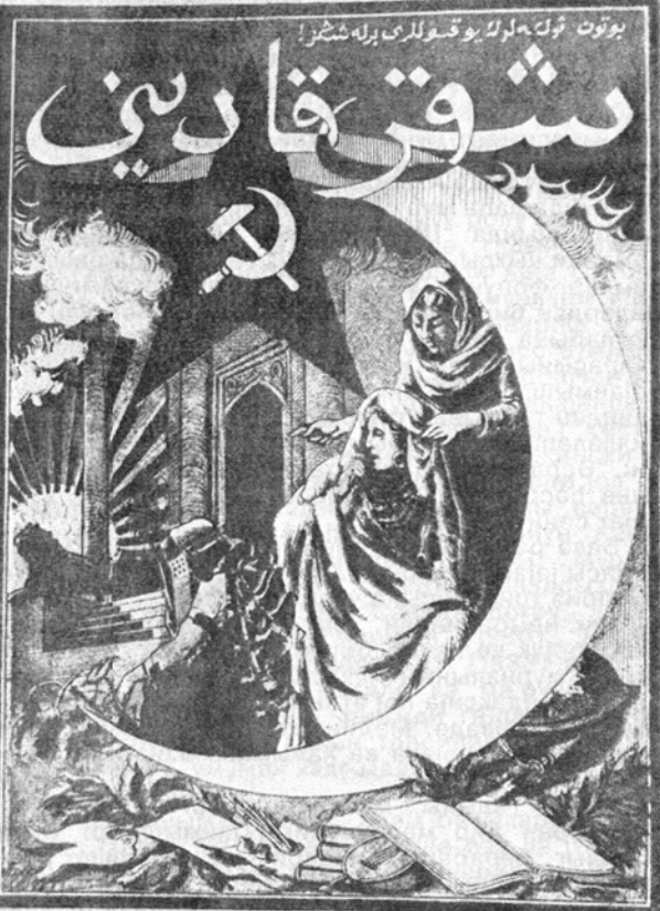 Title of the first edition of Azerbaijani magazine "Woman of the East"